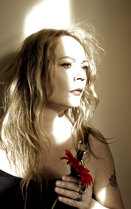 Swedish rock/pop music composer, musician and vocalist Gina Jacobi, photographed for her, at that time, upcoming album Ömtåligt gods (2009).